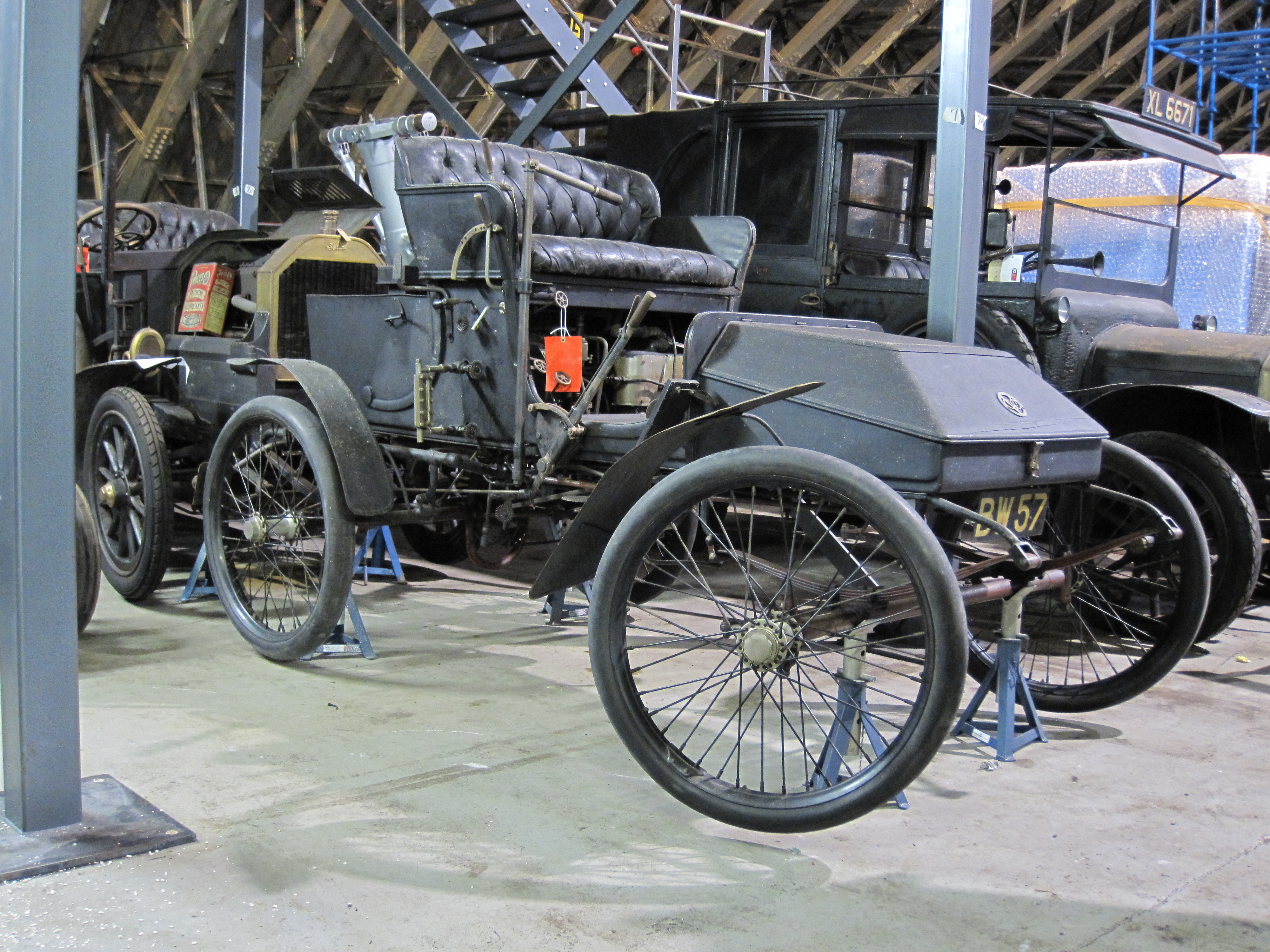 1901 Foster steam car, 6hp runabout Science Museum store, Wroughton Wiltshire